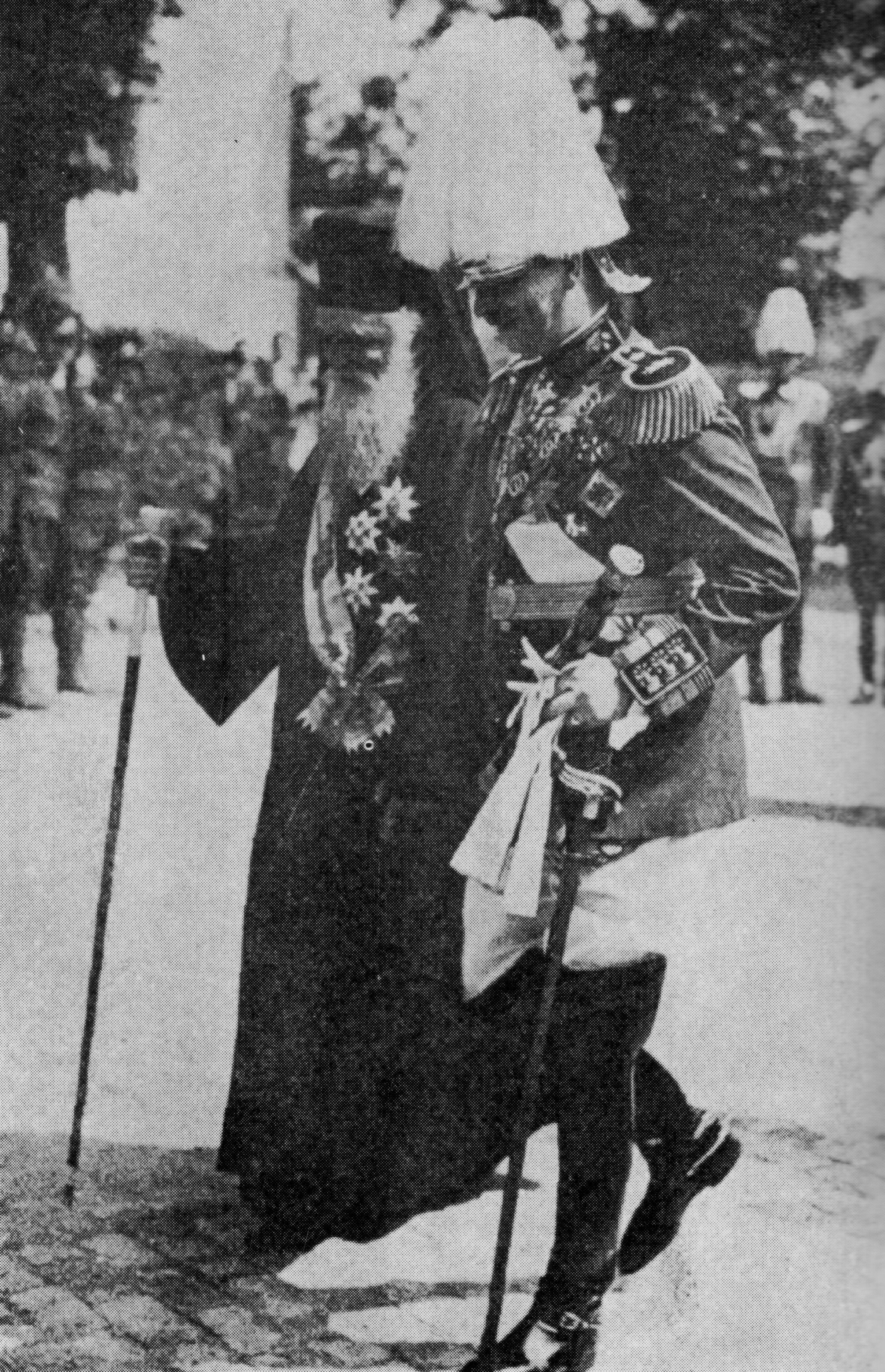 Romanian king Carol II along with Romanian Orthodox Patriarch Miron Cristea, some time between 1930 and 1935.